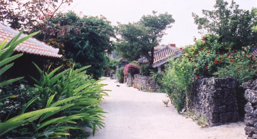 Taketomi Island near Ishigakijima, Yaeyama Islands, Okinawa Prefecture, Japan